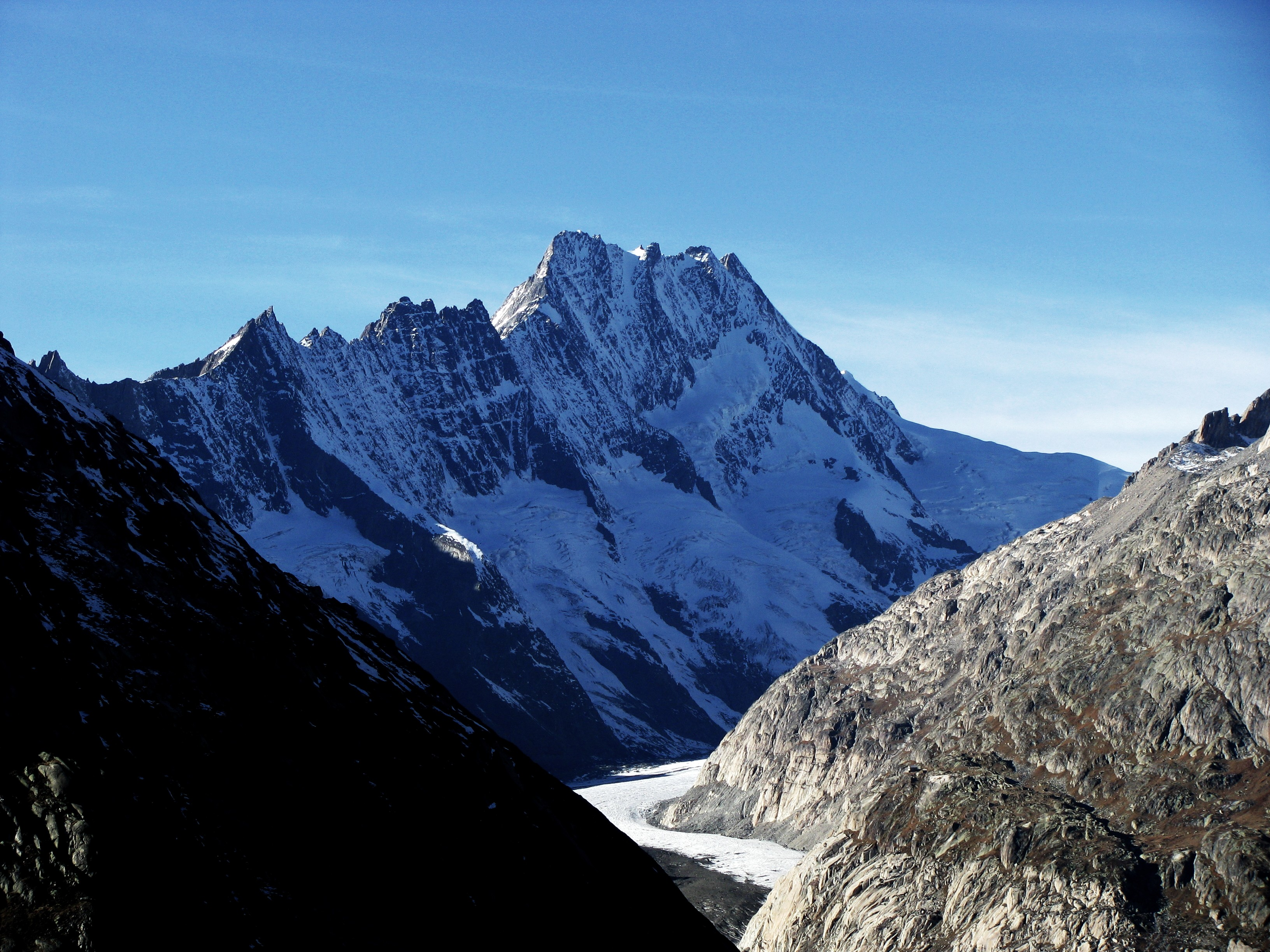 Lauteraarhorn and Schreckhorn, Bernese Alps